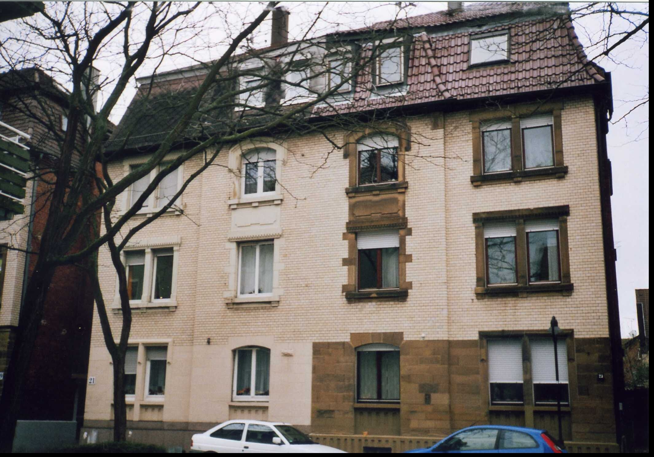 Heilbronn